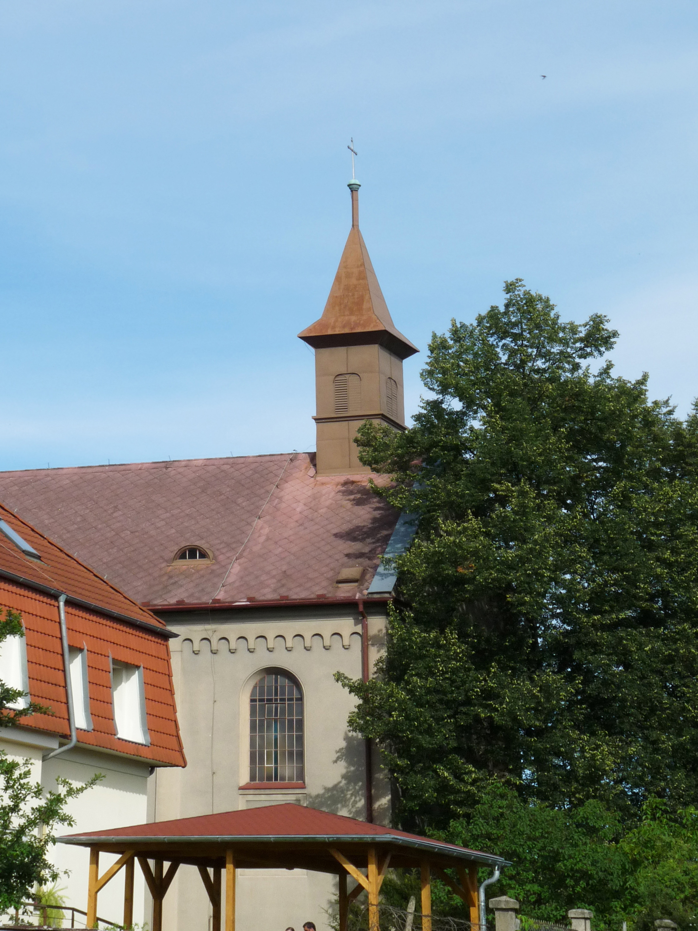 Tower of St Cyril and Metodej church, Suché Vrbné, České Budějovice, Czech Republic. The white building on the left is the Priest Home belonging to the Czech Catholic Charity.